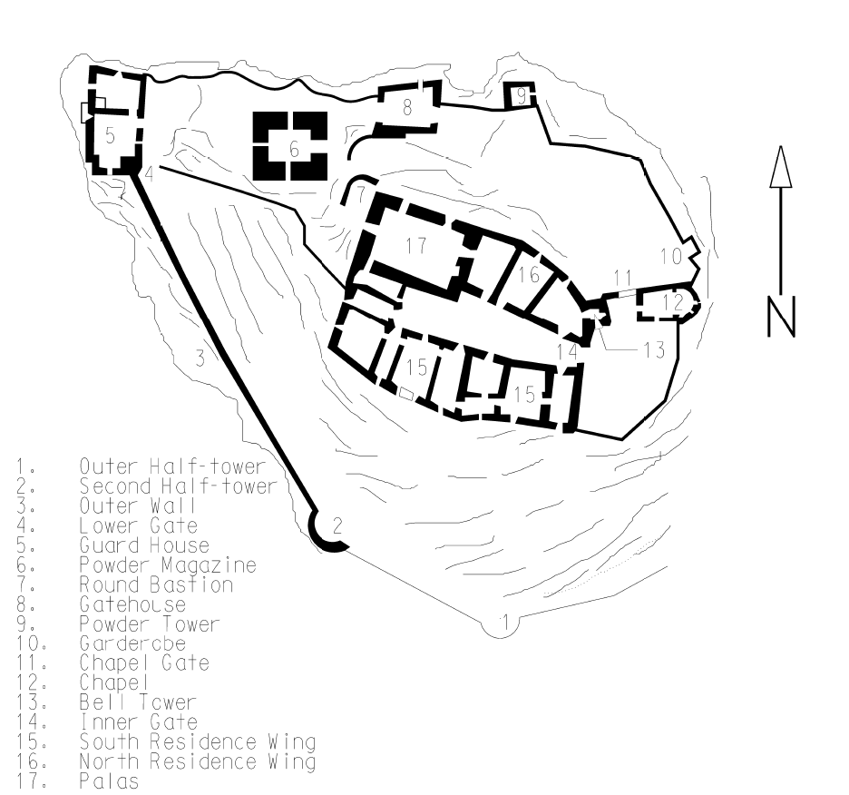 Plan of Tarasp Castle in Graubunden, Switzerland. Based on the drawing at